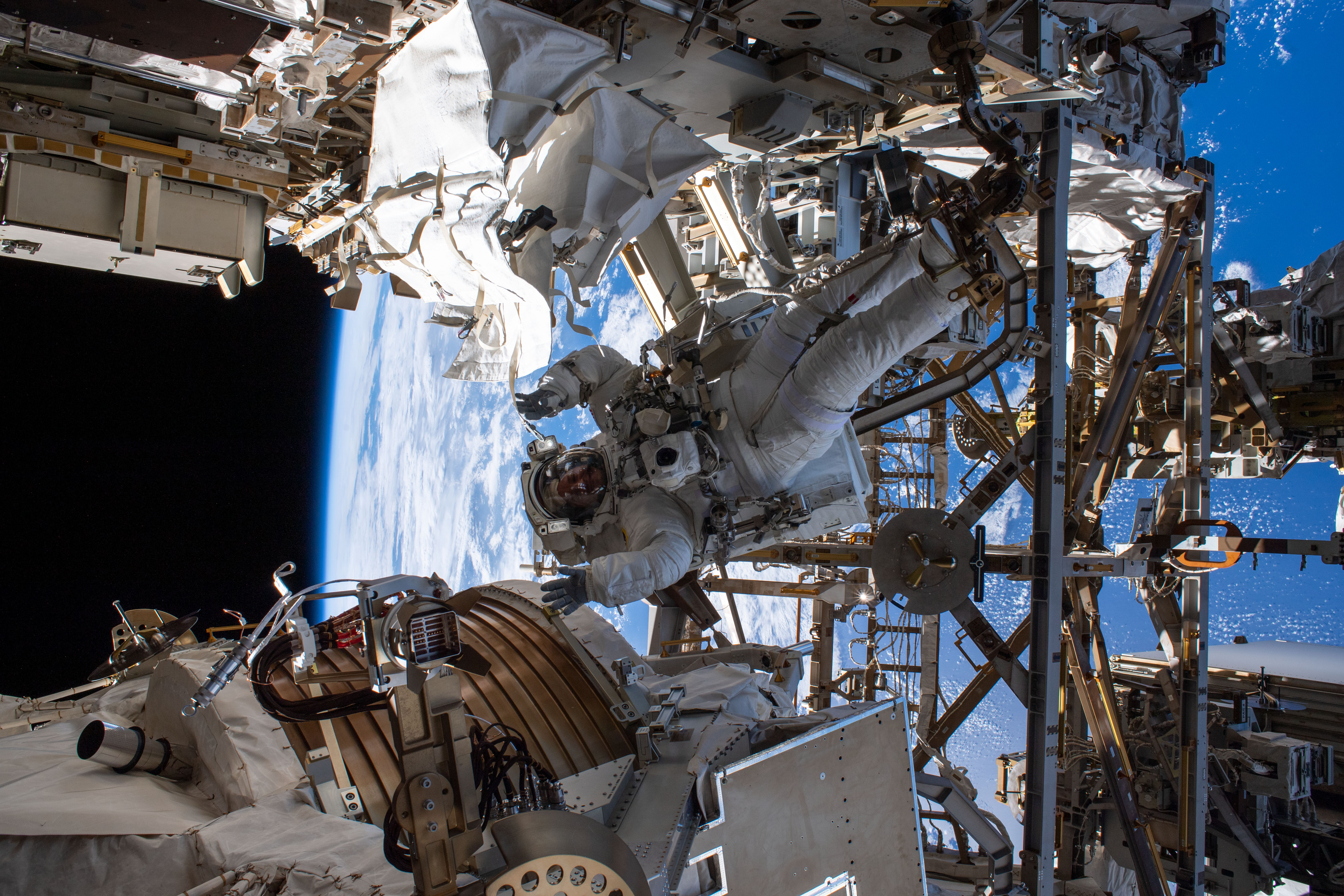 NASA astronaut Andrew Morgan waves as he is photographed seemingly camouflaged among the Alpha Magnetic Spectrometer (lower left) and other International Space Station hardware during the first spacewalk to repair the cosmic particle detector.